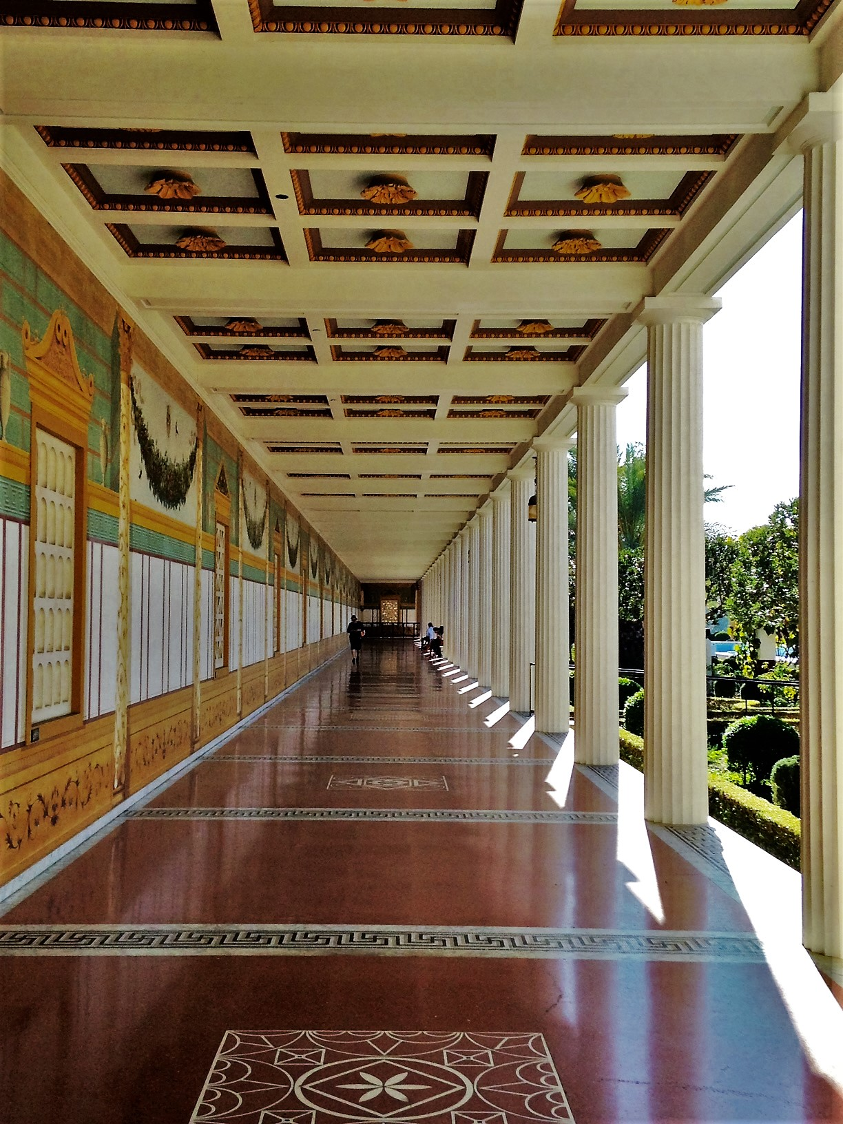 One of the elegant hallways in the gardens of the Getty Villa